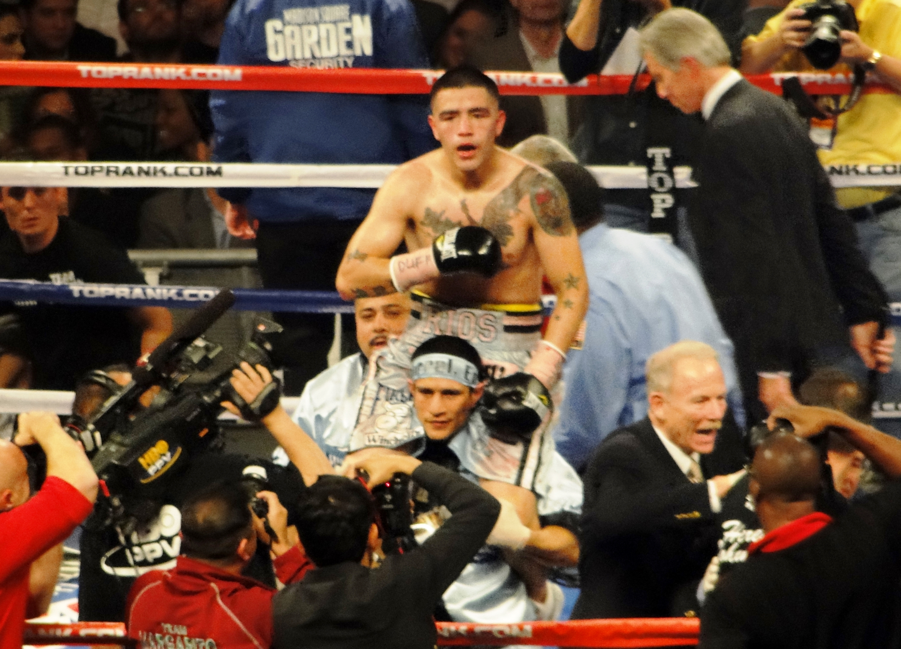 Brandon Rios at the Madison Square Garden on December 3, 2011.